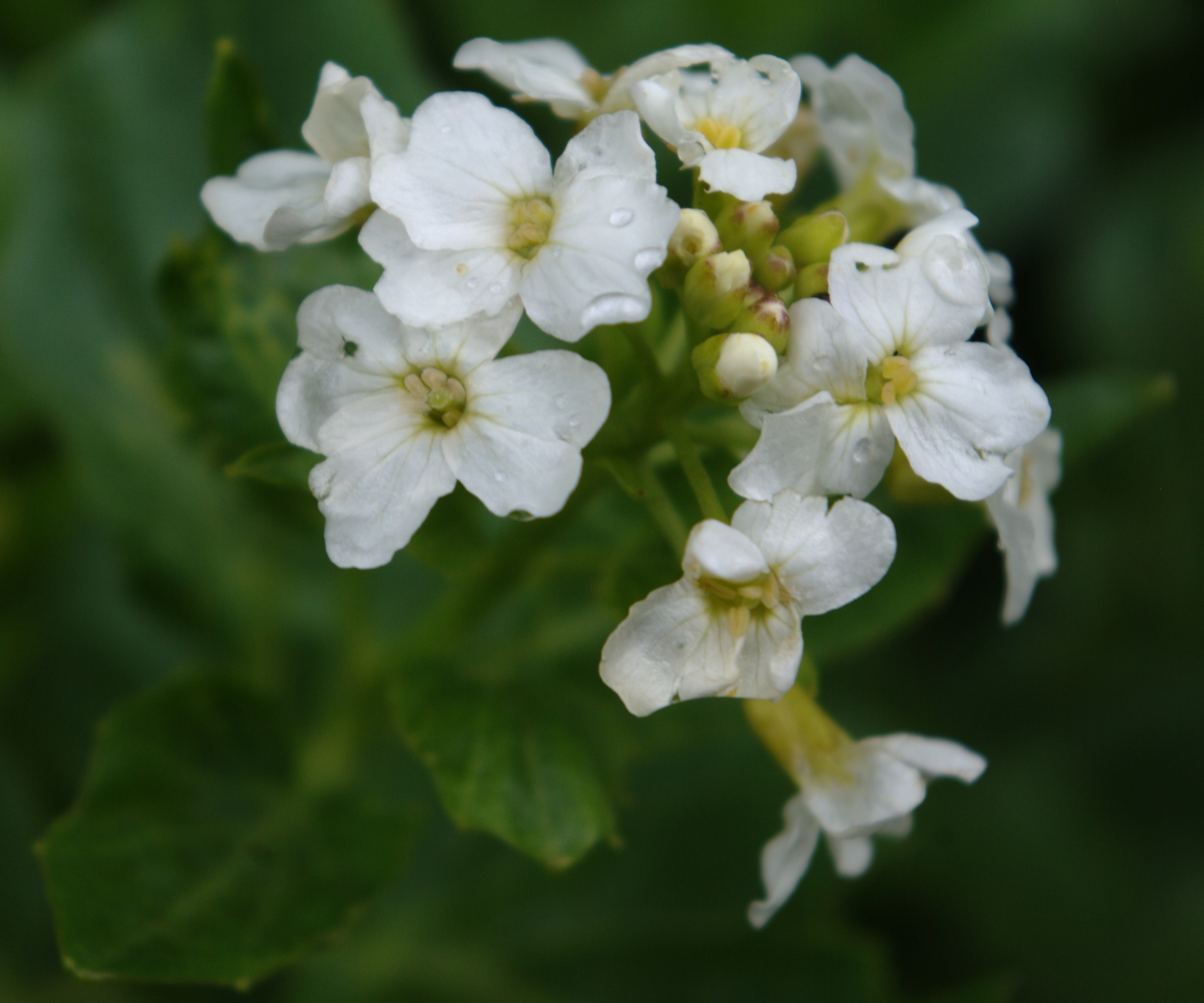 Inflorescence of heartleaf bittercress, Cardamine cordifolia var. cordifolia, Santa Fe Ski Basin, Santa Fe National Forest, near Santa Fe, New Mexico. Altitude about 3350 m (11,000 feet).